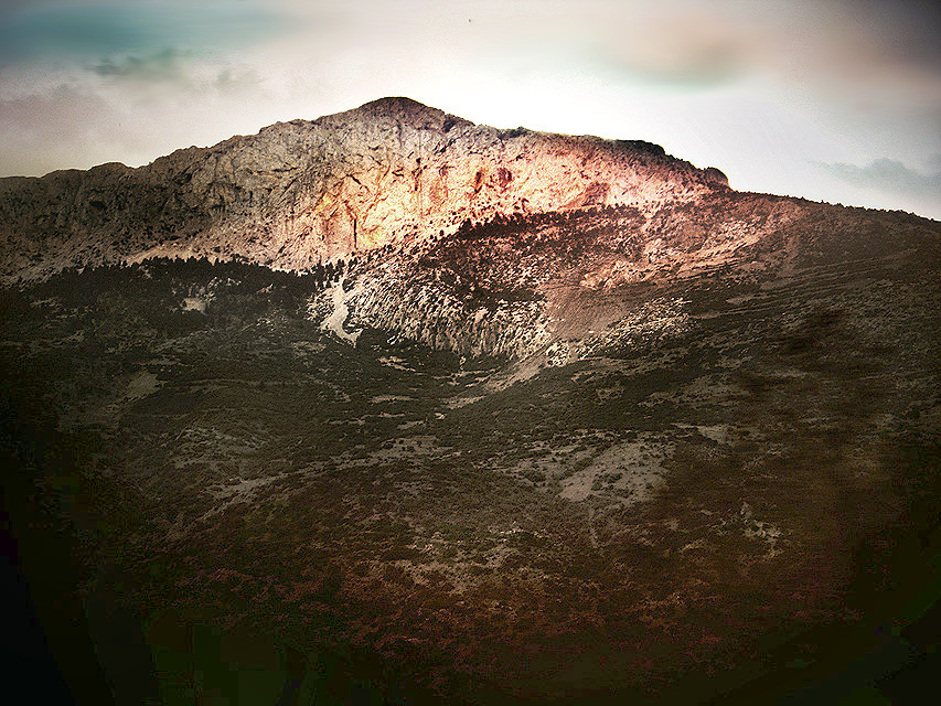 Mount Parnassus, Greece.